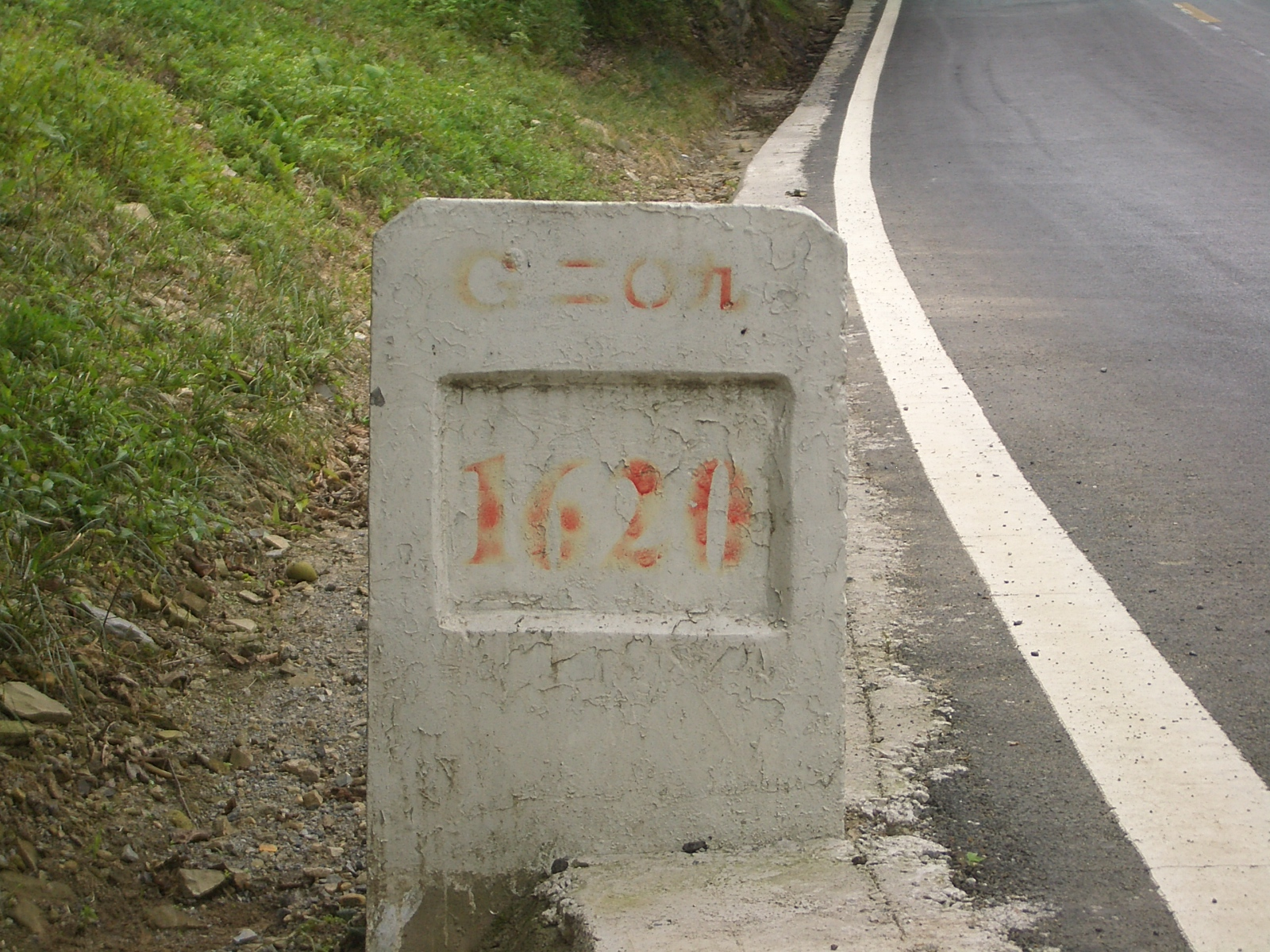 1620 km marker on Hwy G209, a few km north of Muyu, in Shennongjia District.